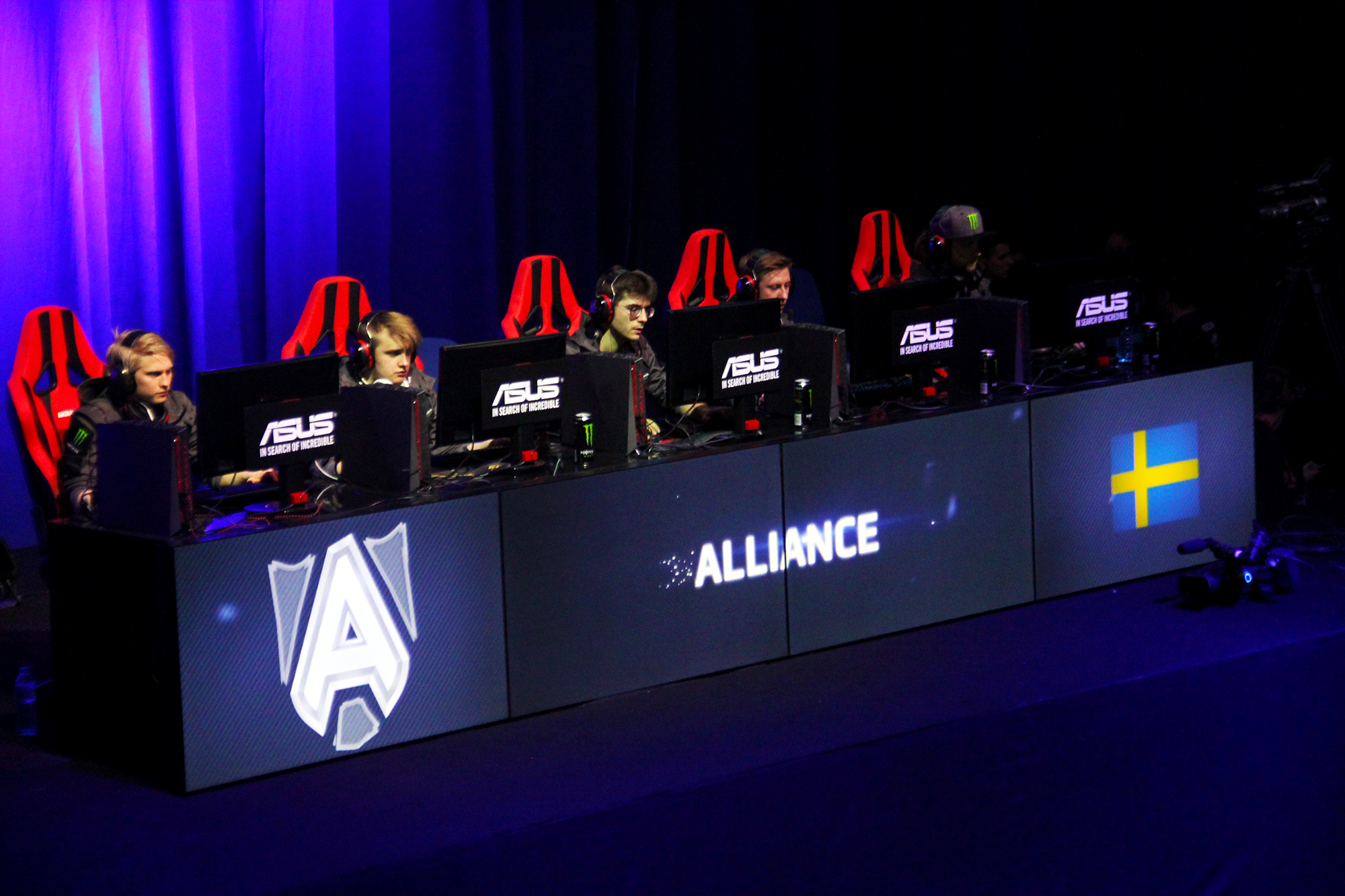 Dota 2 team Alliance at Dreamhack Summer 2015. The team became shared third-place.